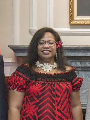 Tessie Eria Lambourne, the Kiribati Ambassador Extraordinary and Plenipotentiary to the Republic of China.